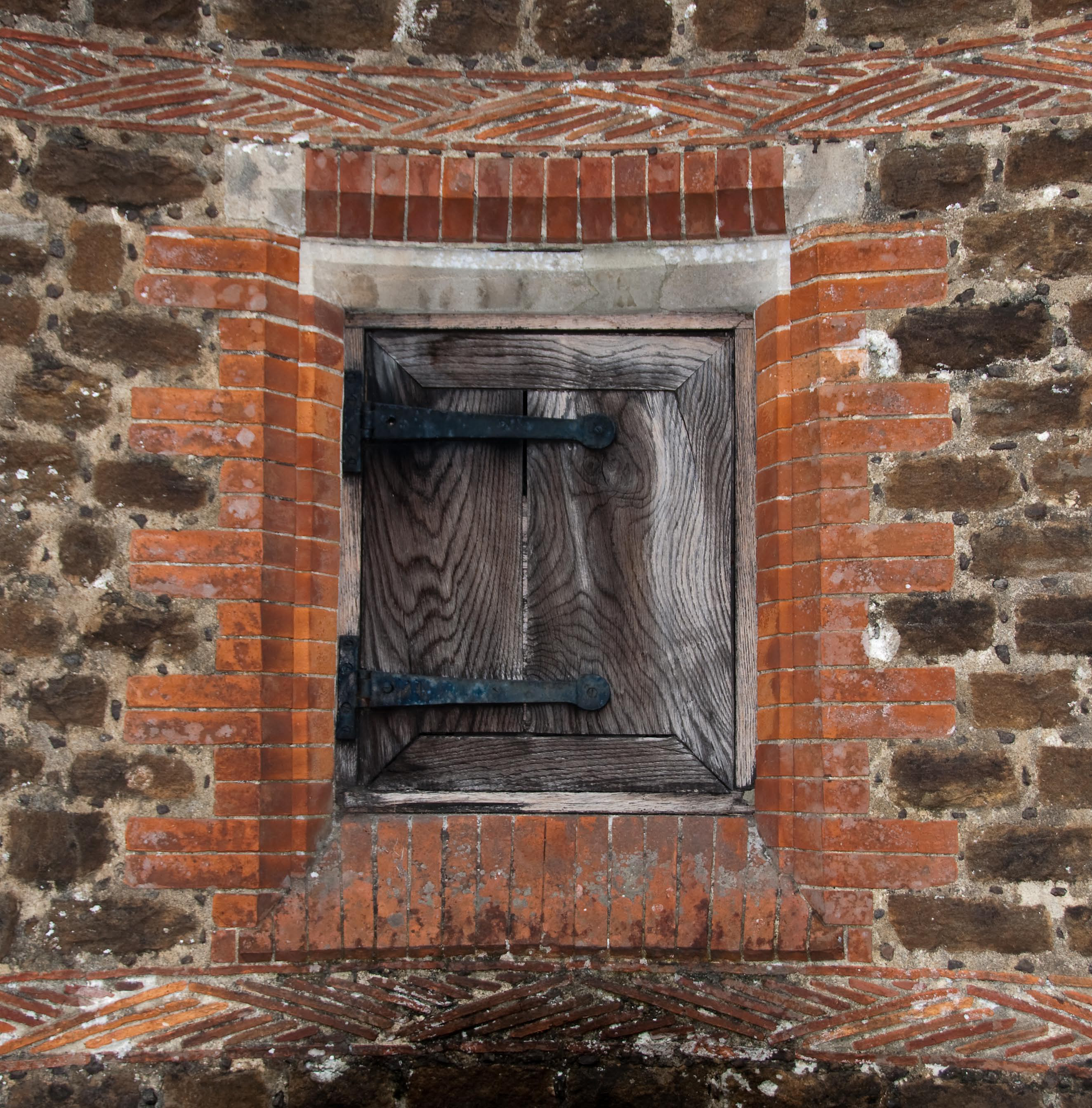 Tigbourne Court. Detail of North Western Flanking Screen Wall